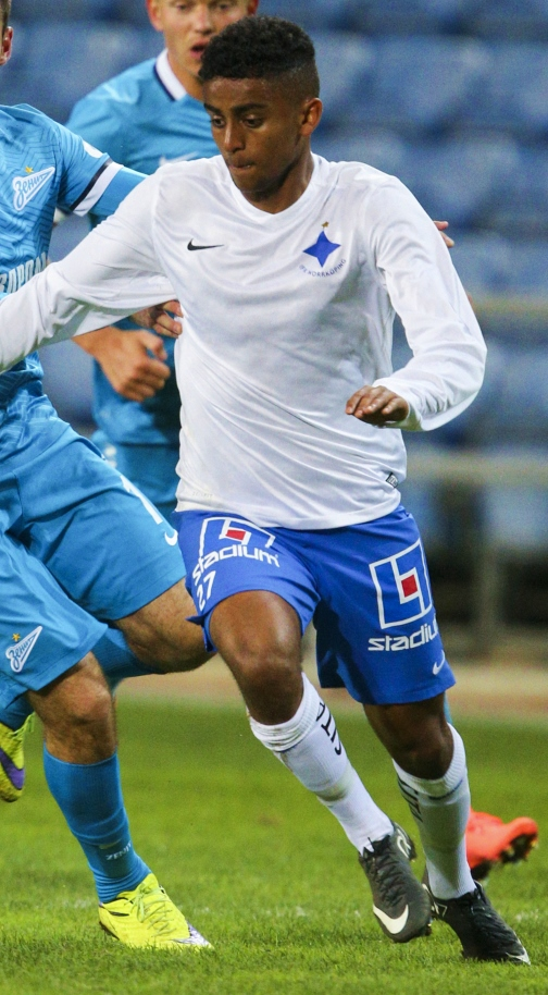 04.02.2016. Ïîðòóãàëèÿ, Àëãàðâè. Ìåæñåçîííûé òóðíèð «Atlantic Cup», ãðóïïà B, «Íîðð÷åïèíã» — «Çåíèò». Íà ñíèìêå â ñèíåé ôîðìå: Àðòóð Þñóïîâ, ïîëóçàùèòíèê ÔÊ «Çåíèò», è Îëåã Øàòîâ, ïîëóçàùèòíèê ÔÊ «Çåíèò».